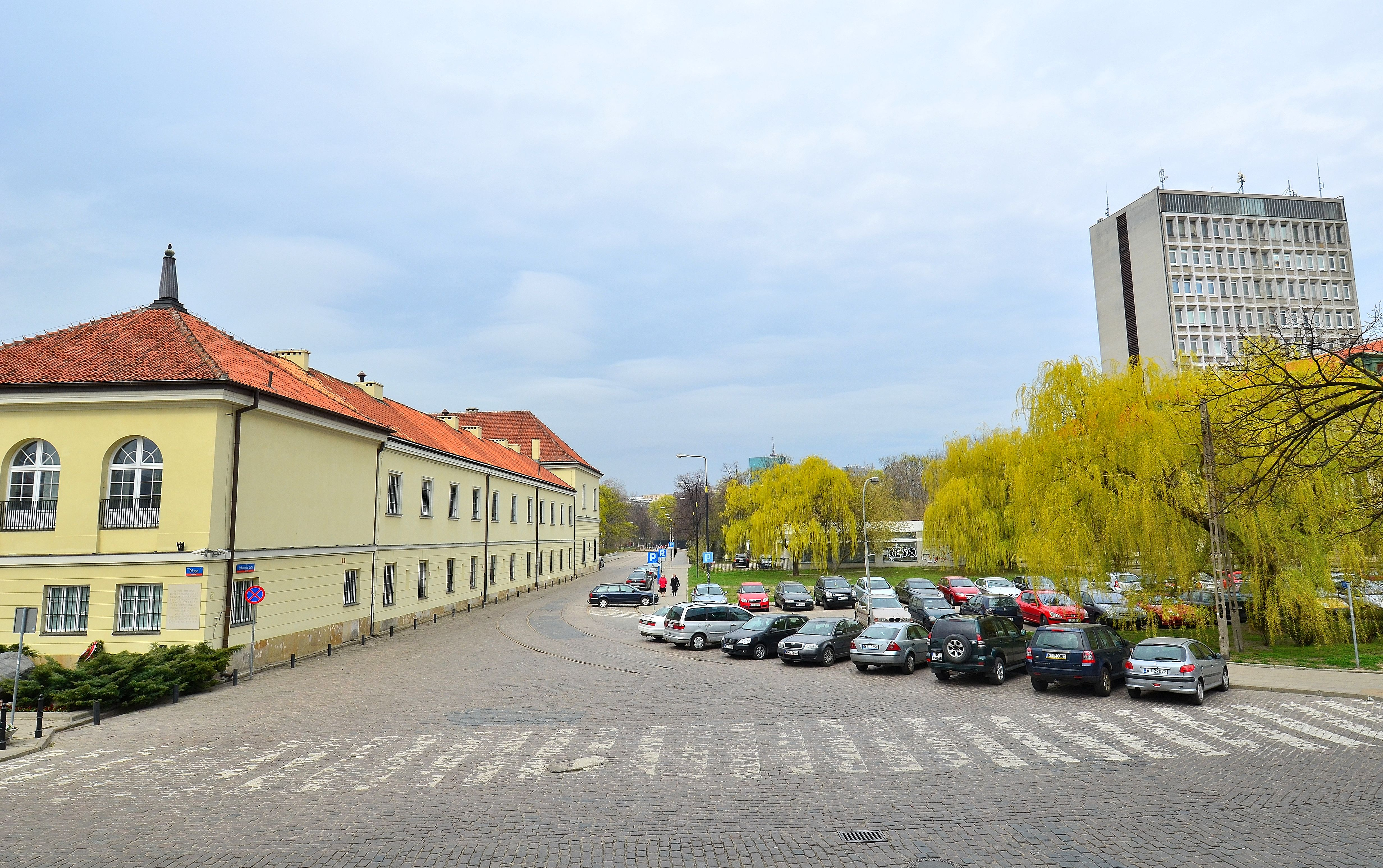 Ghetto Heroes (formerly Nalewki) Street near Długa Street in Warsaw